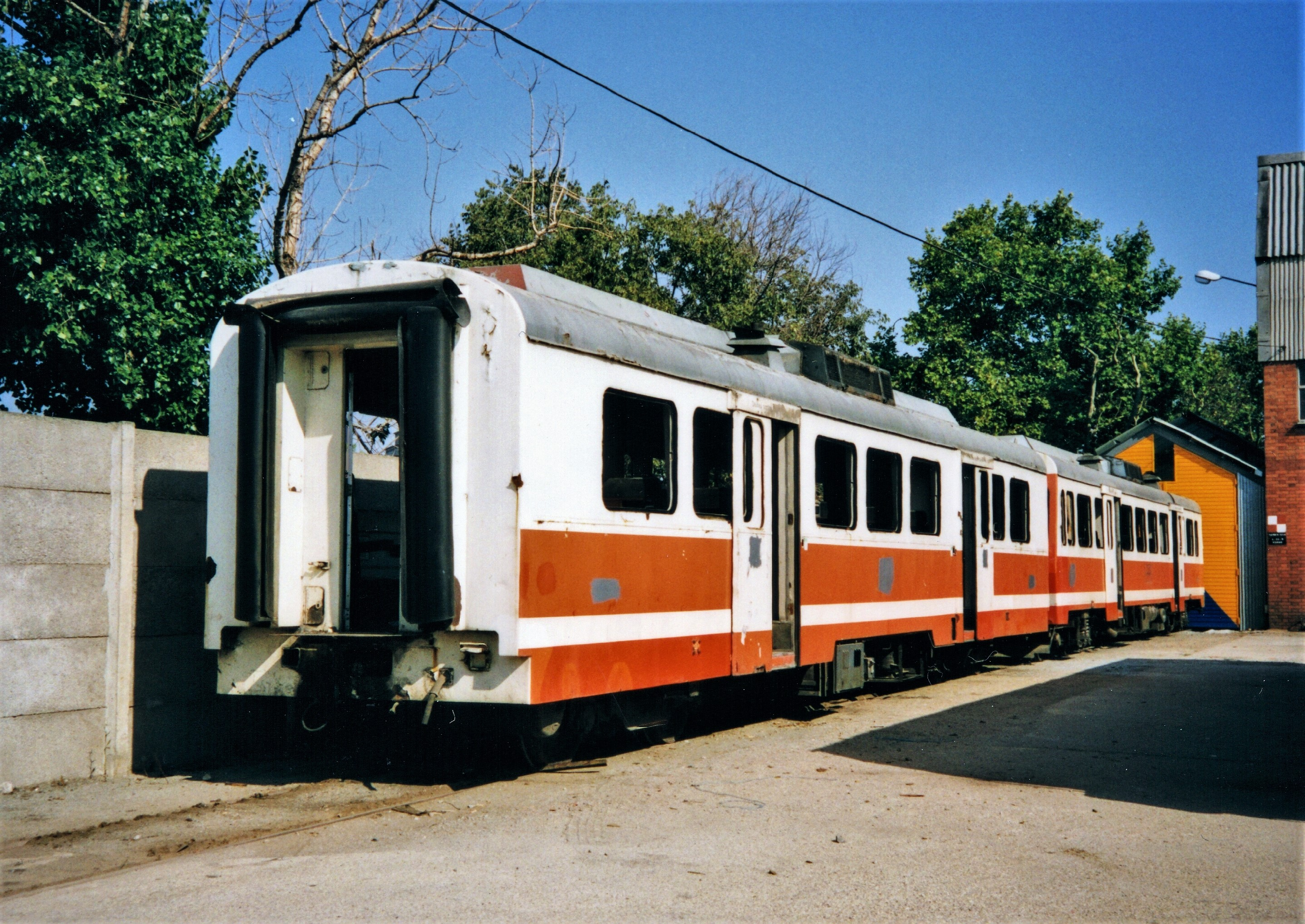 The trailer 3002 of FGC in the workshop of Martorell Enllaç, with many elements already disassembled to provide spare parts to the other cars, shortly before being scrapped.